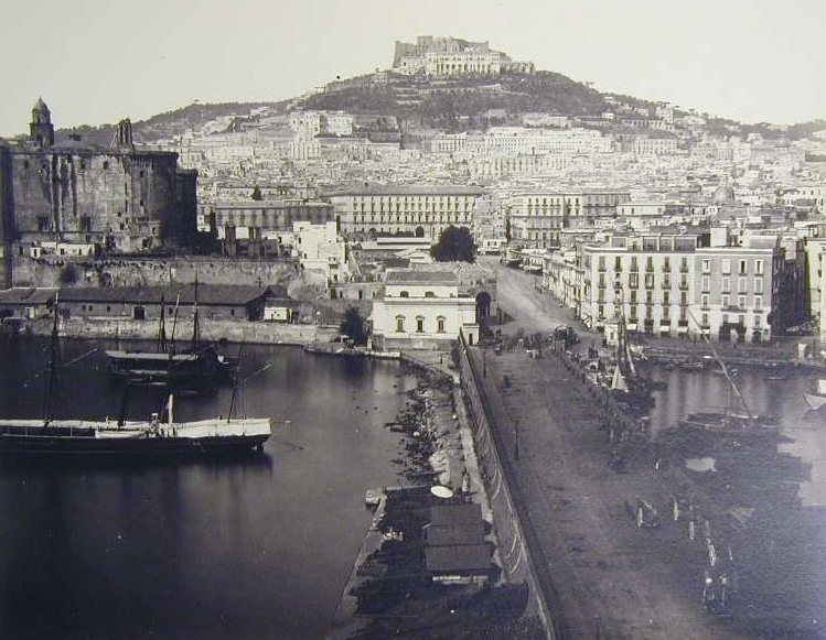 Giorgio Sommer (1834-1914), A view of the Sant'Elmo castle, in Naples. Stereo card, ca. 1860/1870.